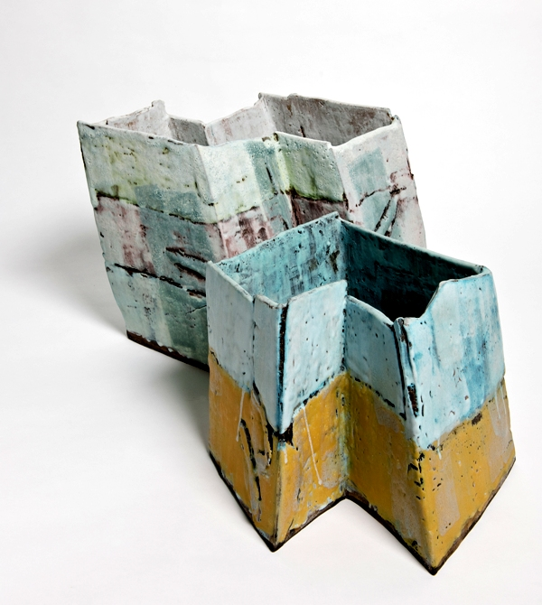 Ceramic objects by the artist Maria Baumgartner, h = 23, 25 cm